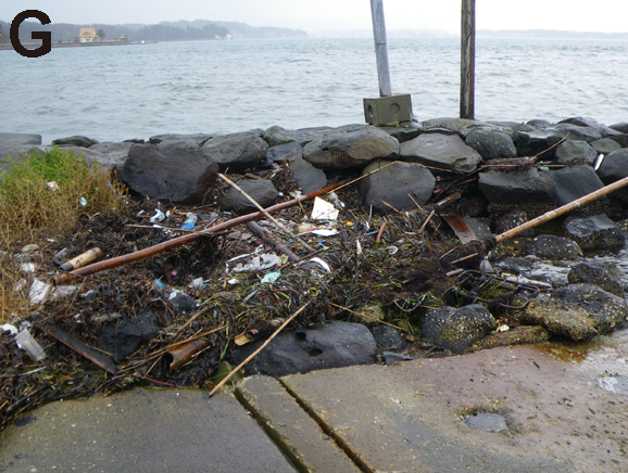 Photo of habitat: decaying seaweed stranded on the beach in Japan, inhabited by Cecina manchurica.